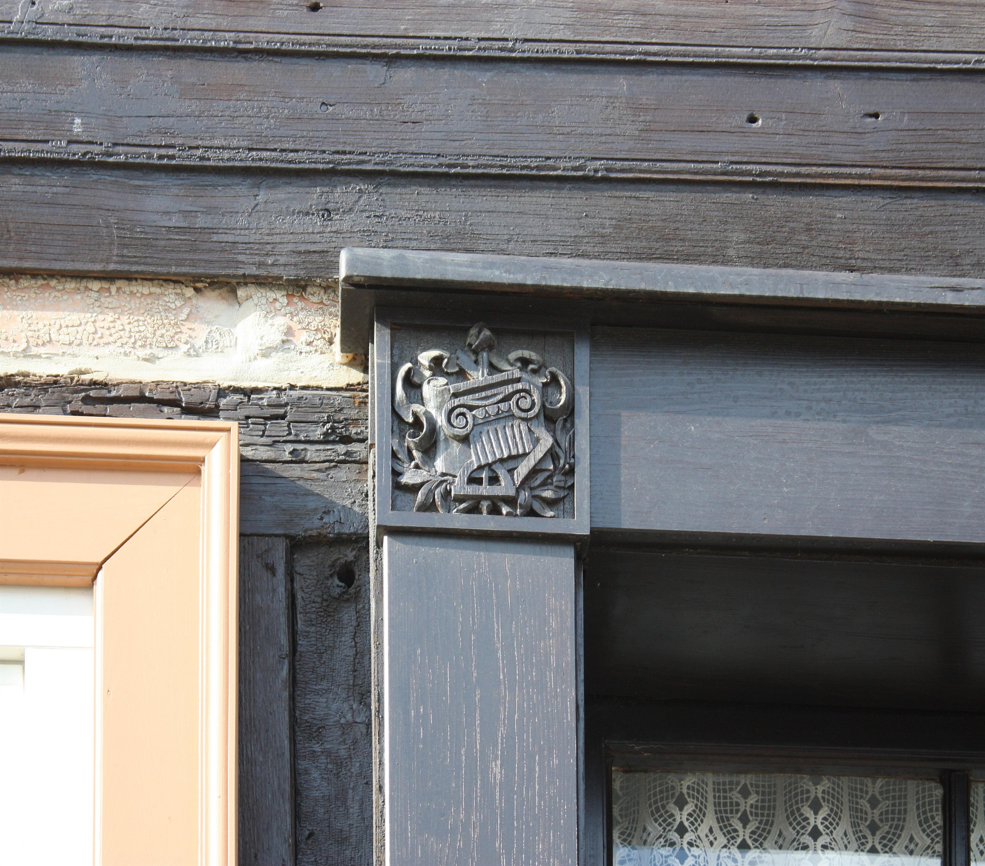 This is a photograph of an architectural monument.It is on the list of cultural monuments of Quedlinburg Augustinern 6 in Quedlinburg